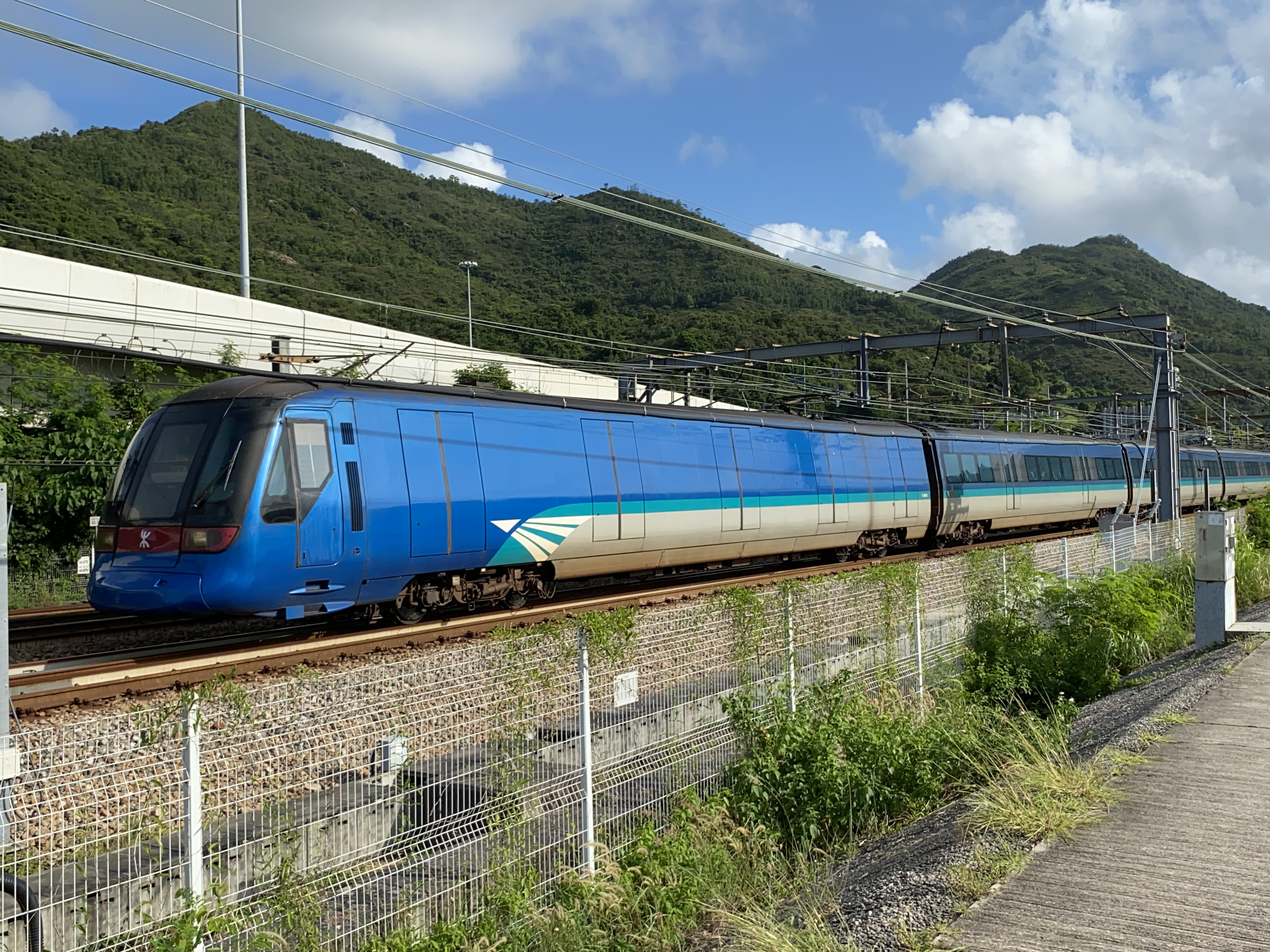 中文（香港）: This photo is taken in Sunny Bay.